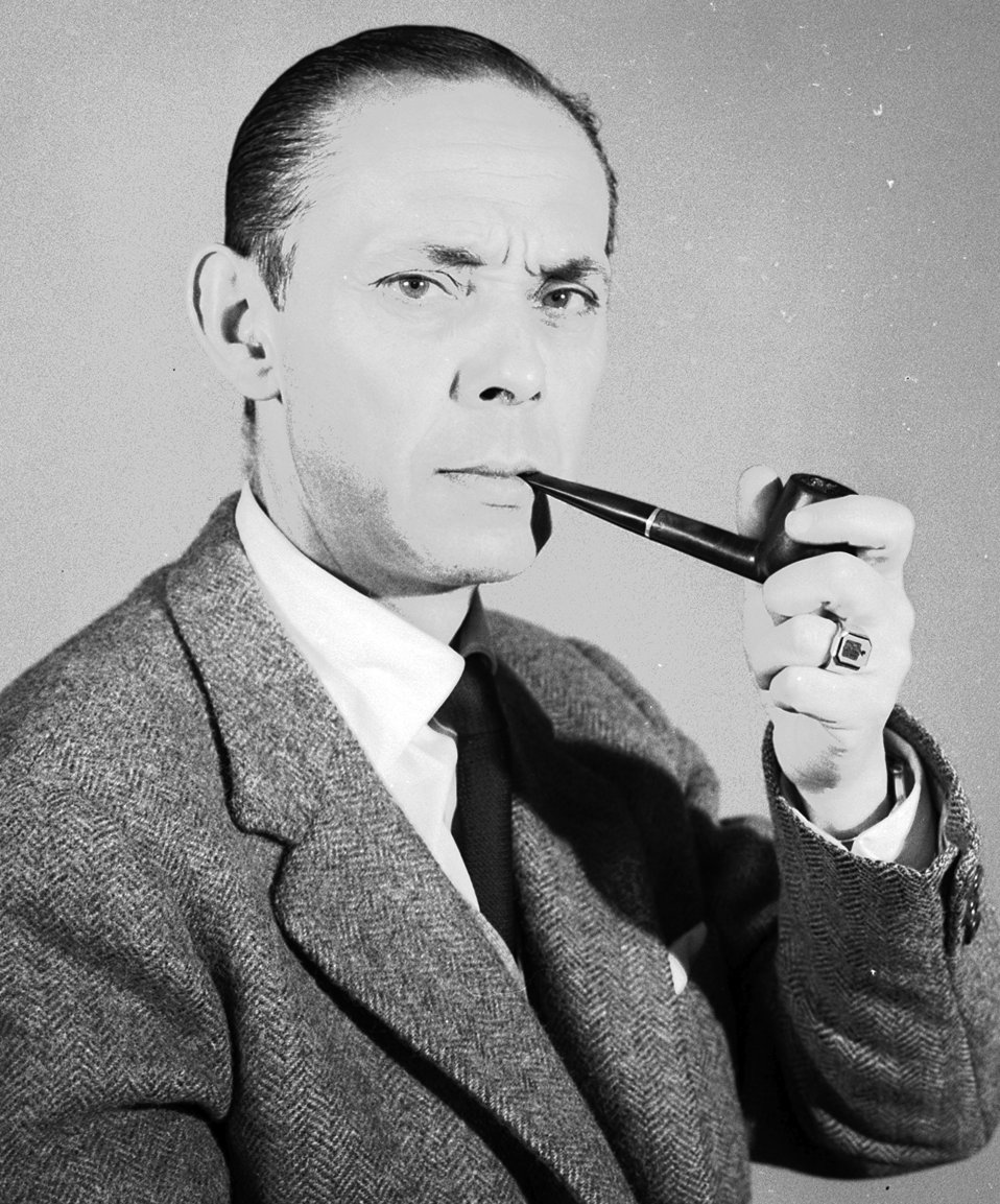 Eugenio Morales Agacino (1960s).